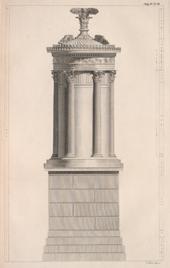 The Choragic Monument of Lysicrates from Stuart and Revett's The Antiquities of Athens, 1762.